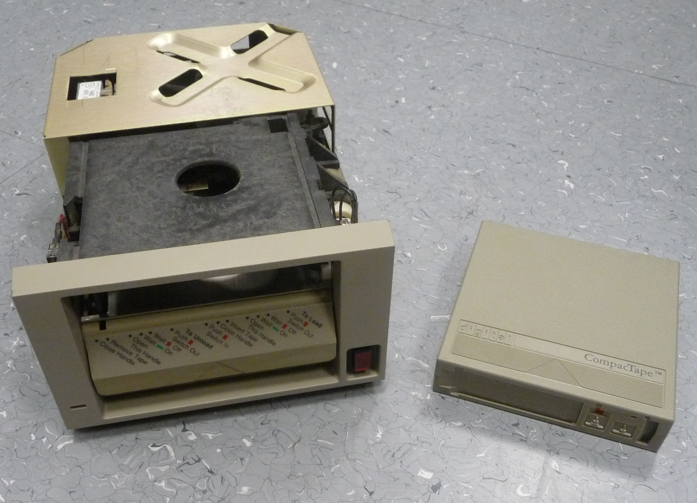 DEC TK50 drive and cassette